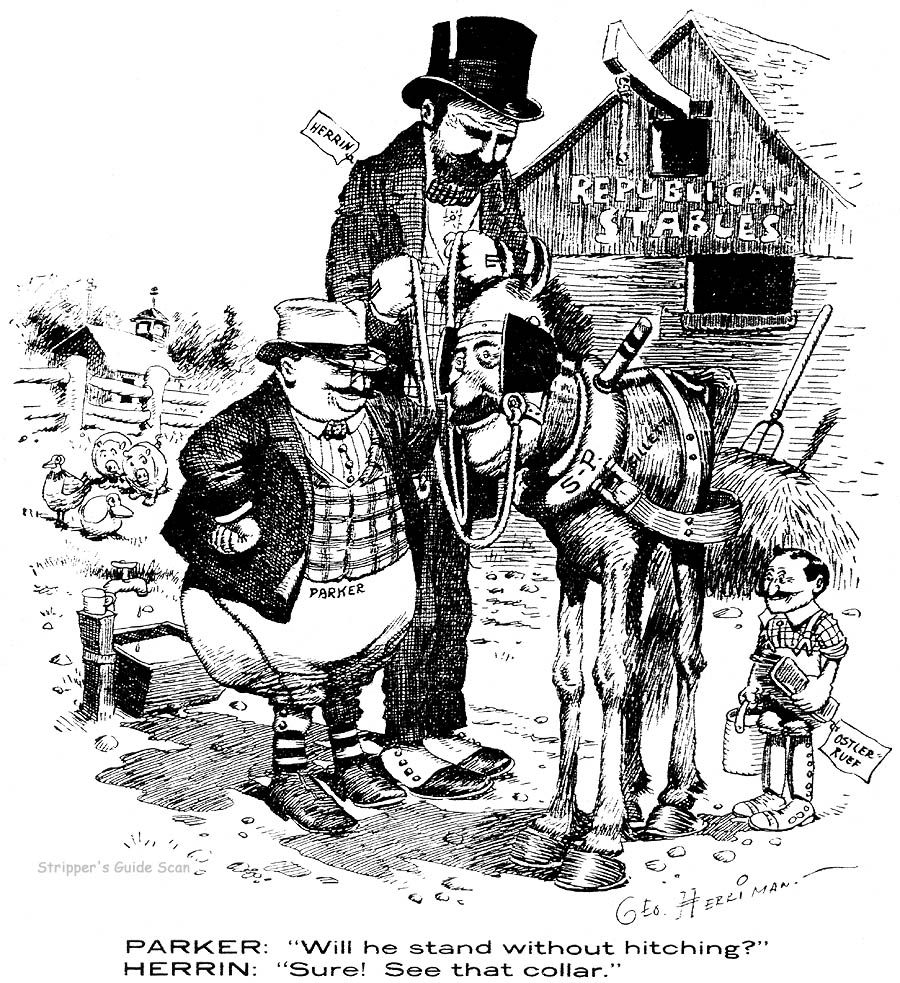 A George Herriman cartoon caricaturing California politician James Gillett as a mule surrounded by prominent Southern Pacific lobbyists in 1906. Herriman frequently depicted Gillett as a mule.